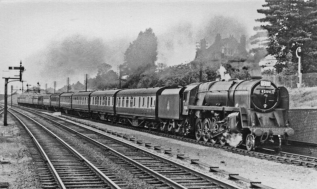 Up holiday express from Torbay, near to Churchdown, Gloucestershire, Great Britain. View westward just west of Churchdown Station, towards Gloucester, Bristol etc. This Paignton - Nottingham Summer Saturday express was headed by No. 92106, a BR Standard 9F 2-10-0 - useful on passenger expresses at busy times as they were capable of running smoothly at high speeds. The Joint GW and Midland line between Gloucester and Cheltenham was widened to four tracks in World War Two, but reverted to two tracks in the 1960s